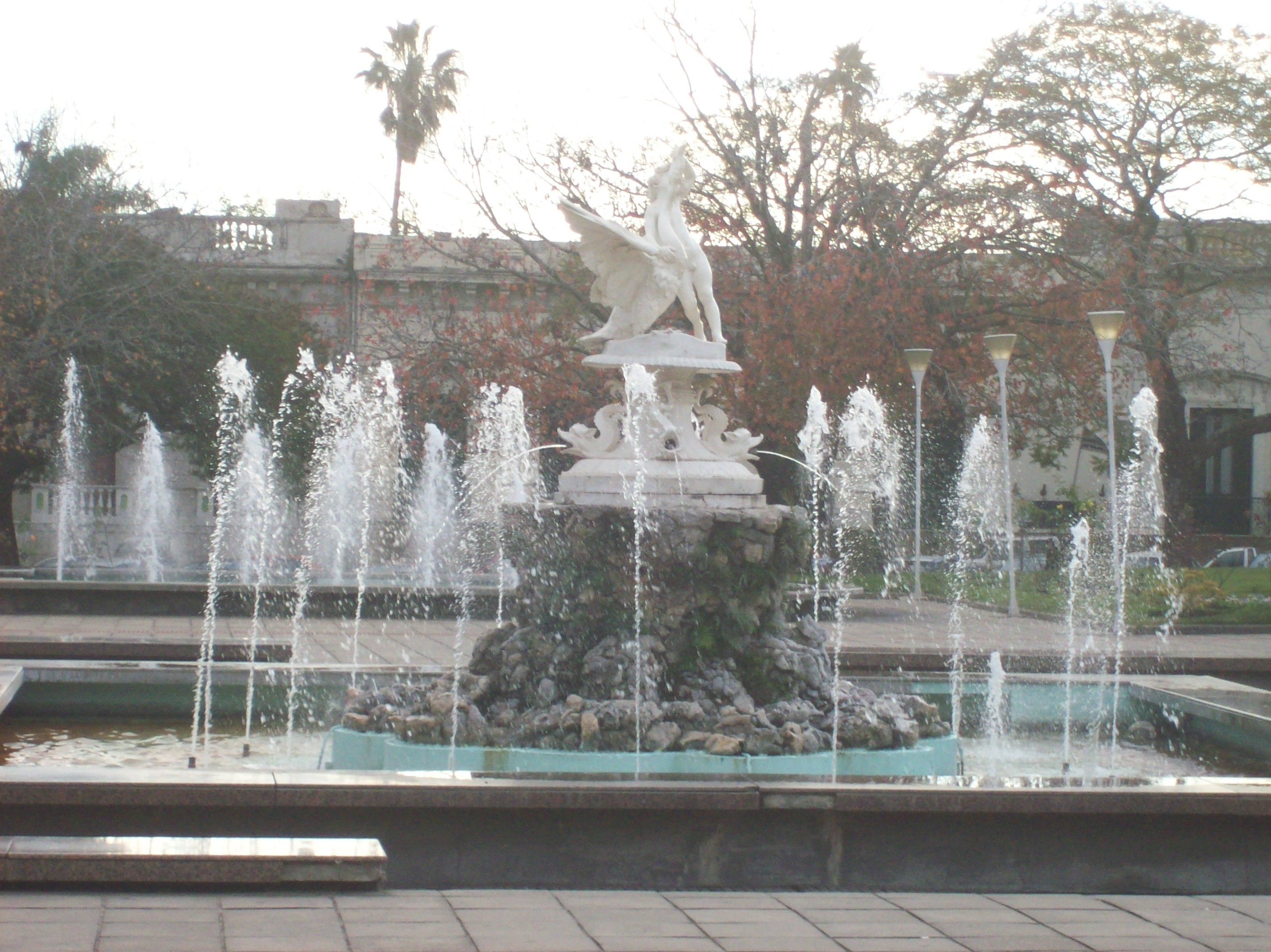 Plaza in the city of Salto in Uruguay